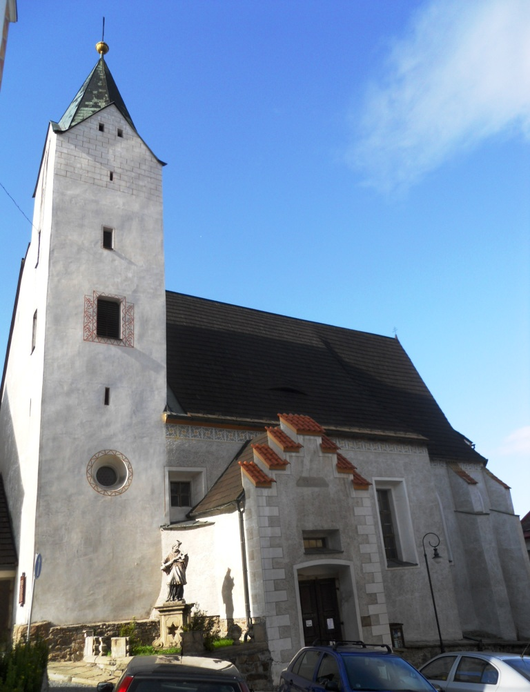 Vimperk church from S